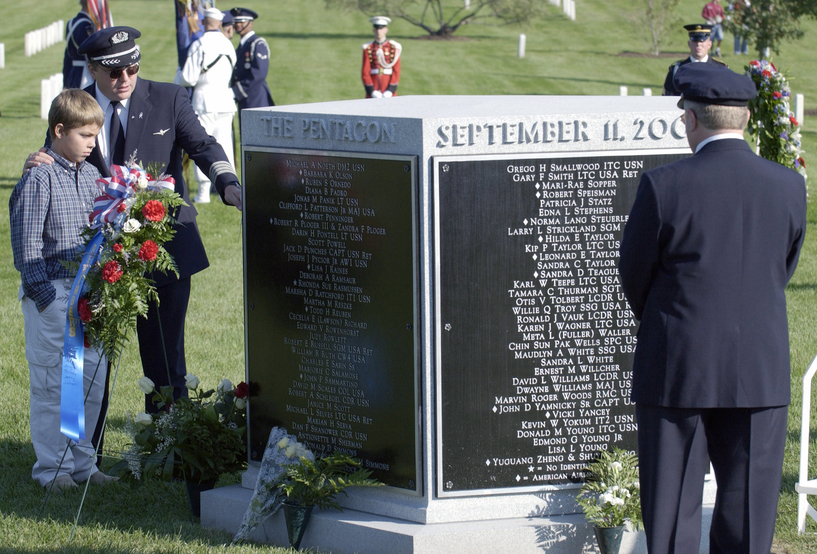 American Airlines (AA) pilot Captain (CAPT) James C. Condes, shows his son Christopher, the inscribed pilot's name of the ill fated flight 77, CAPT Charles Burlingame, prior to a memorial service at Arlington National Cemetery for the 184 victims of the September 11th, 2001, terrorist attack on the Pentagon.Location: ARLINGTON NATIONAL CEMETERY, VIRGINIA (VA) UNITED STATES OF AMERICA (USA)